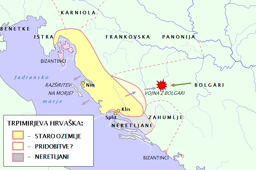 Map of duke Trpimir's territory is based on descriptions of Gotschalk for marine borders, on descriptions in De administando imperio (DAE) for Croatia in X.th century AD with Livno district, and descriptions of war with Bulgarians. For Gotschalk: look in Klaić Nada (1990): Povijest Hrvata u srednjem vijeku. Zagreb, Globus, Page 58-59. For DAE: look in Goldstein Ivo (2008): Hrvaška zgodovina. Ljubljana, Društvo Slovenska matica. Page 36; Klaić Nada (1990): Povijest Hrvata u srednjem vijeku. Zagreb, Globus, Page 76-77; Šišić Ferdo (1990): Povijest Hrvata u vrijeme narodnih vladara. Zagreb, Nakladni zavod Matice hrvatske. Page 446.For the war with Bulgarians: look in Klaić Nada (1990): Povijest Hrvata u srednjem vijeku. Zagreb, Globus, Page 59; Voje Ignacij (1994):Nemirni Balkan. Ljubljana, DZS. Page 49. After two wars with Bulgaruians new districts of Livno, Pesenta and Pliva were added to croatian state. So- the Livno district was probably anexed already in the time of Trpimir. Also compare with Dezela kneza Borne.PNG